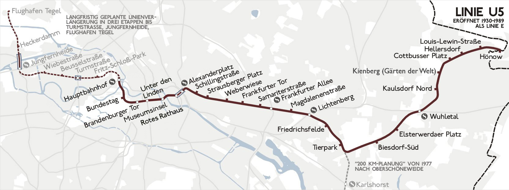 Map of the Berlin u-bahn line U5